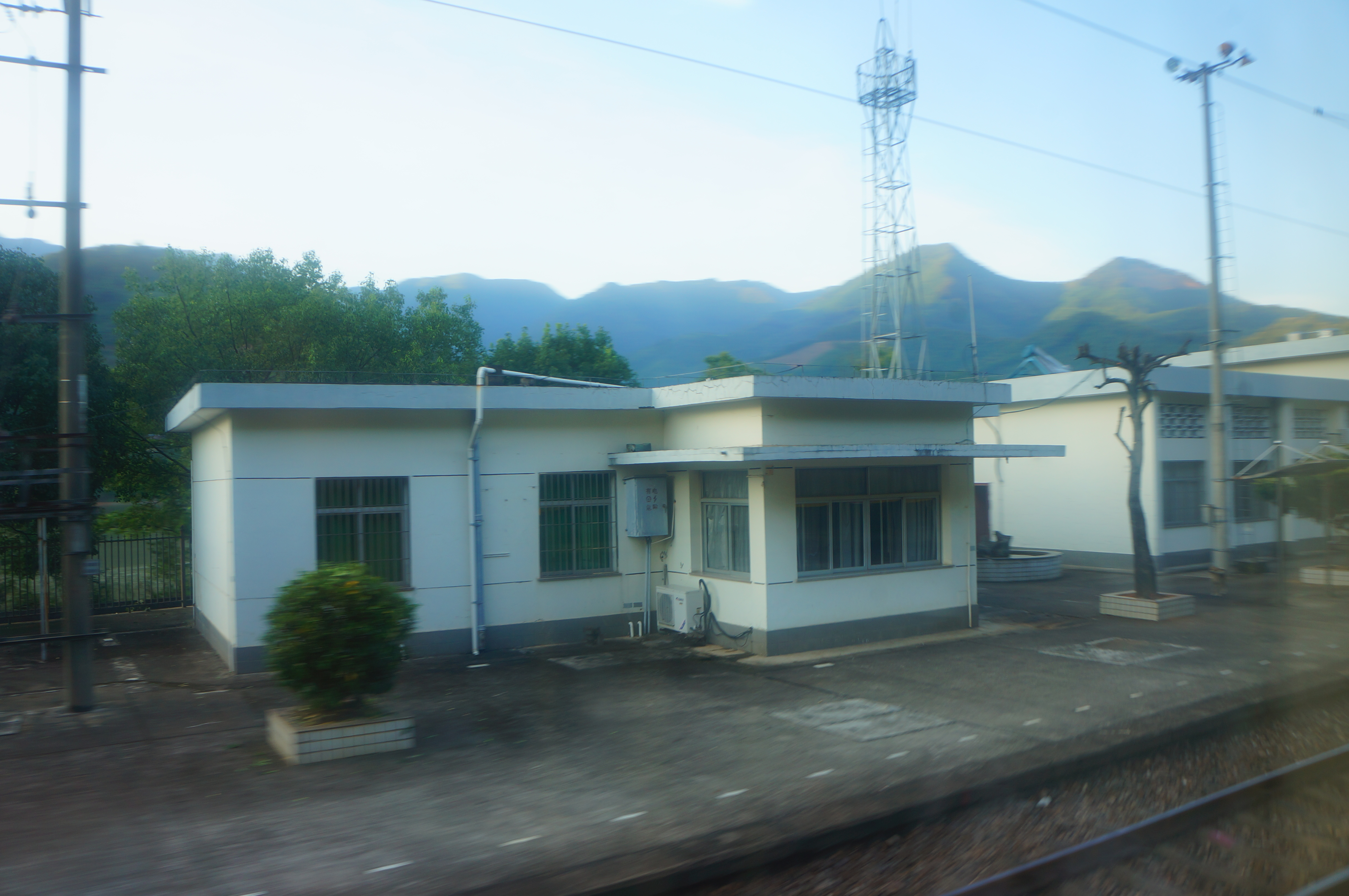 201806 Conductor of Lüshui Station